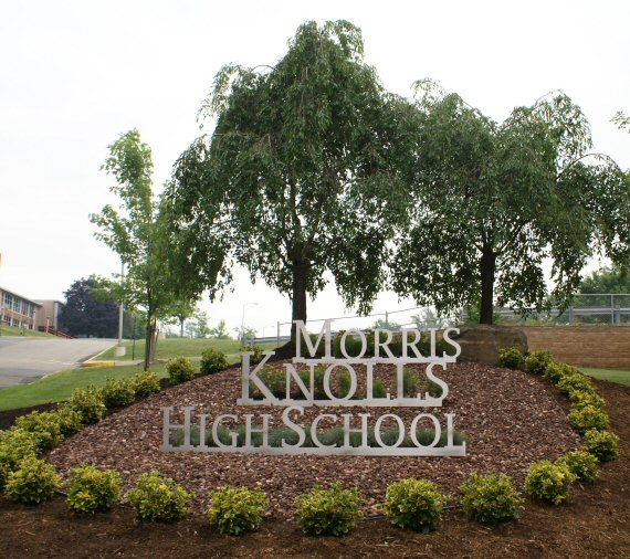 Picture of the redesigned Morris Knolls High School sign